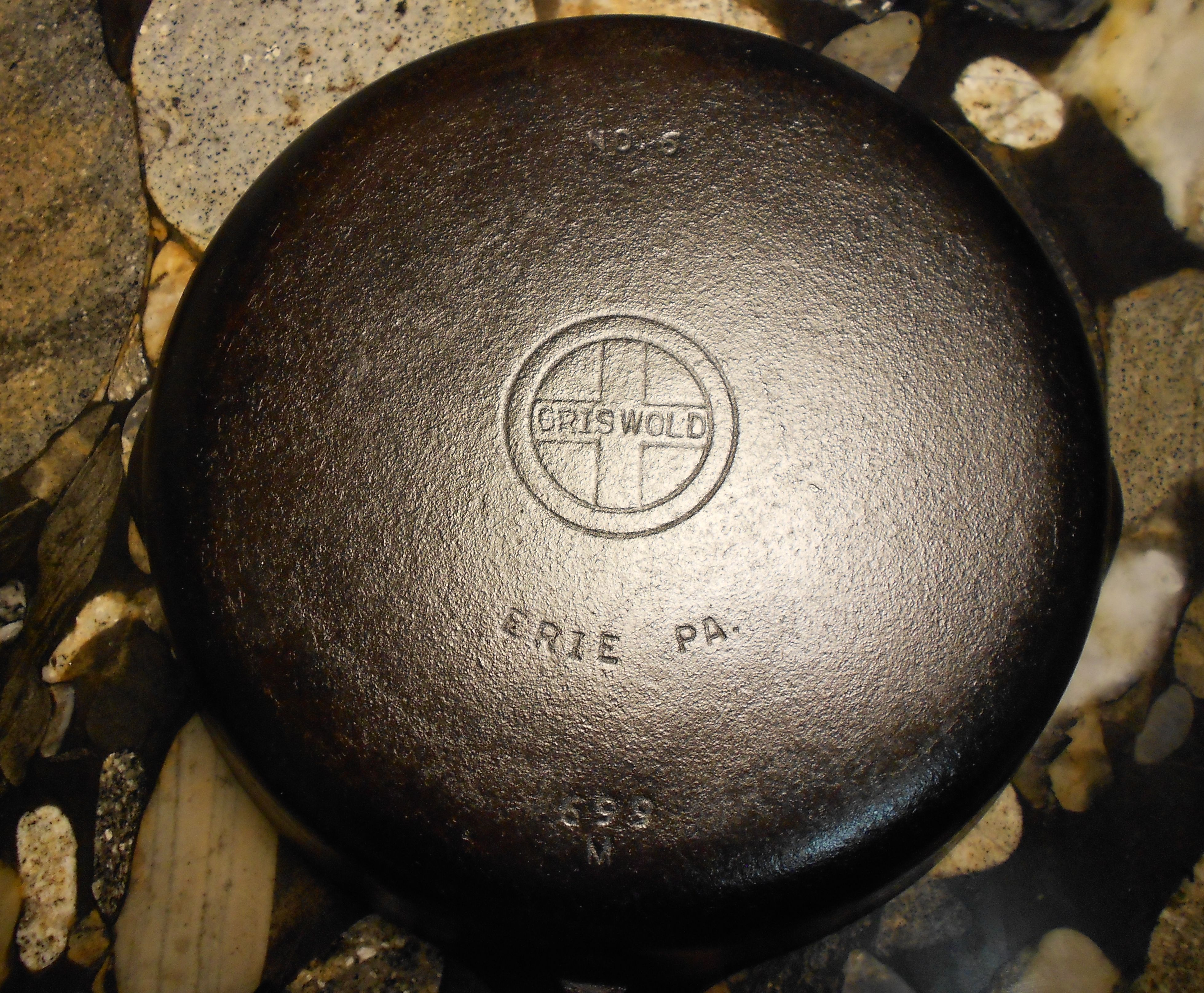 Griswold #6 sized cast iron skillet, displaying the "small" logo. This skillet was manufactured approximately between the years 1940 and 1957.